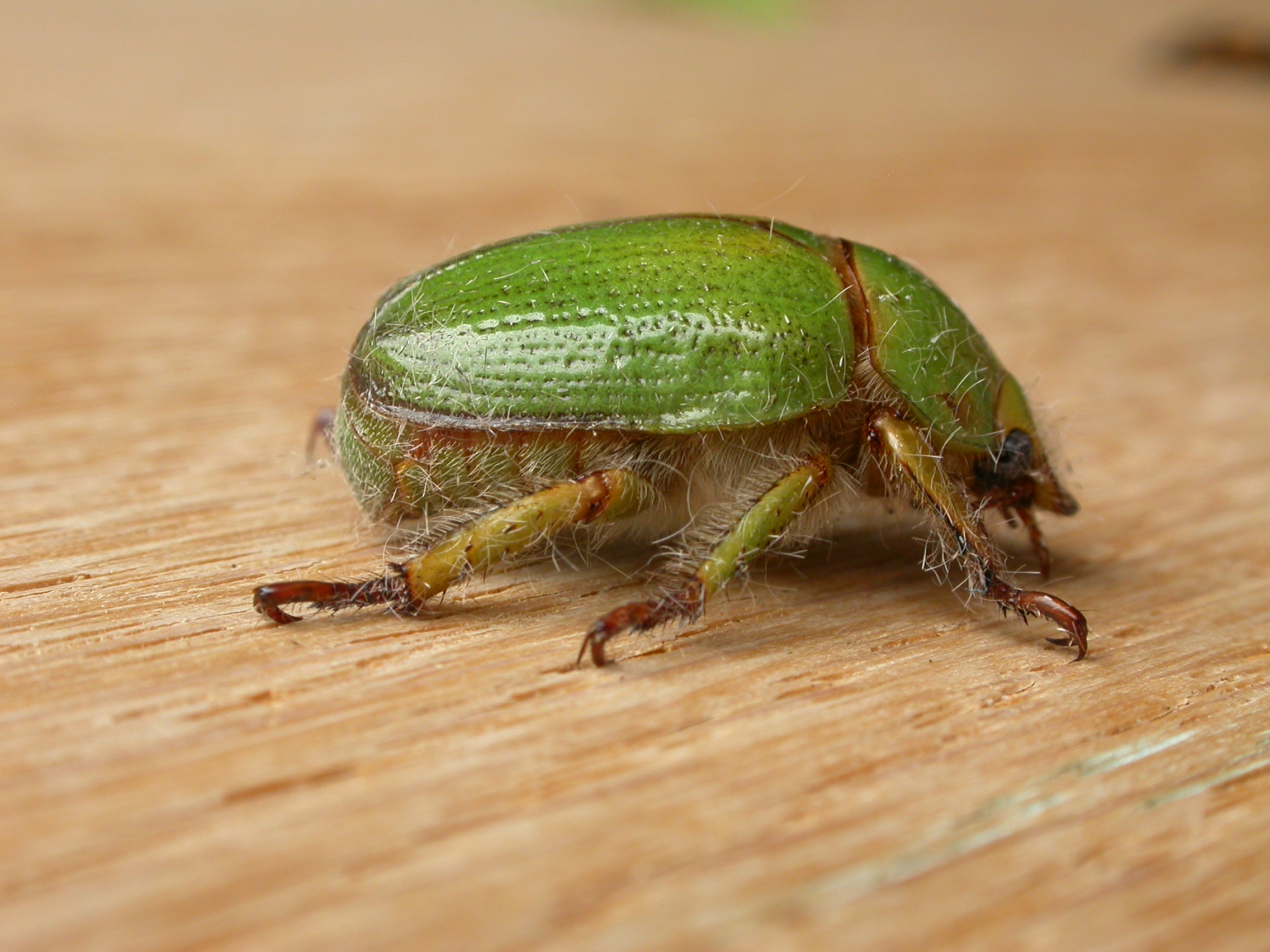 Anoplognathus prasinus (Castelnau, 1840), to MV light, Blackheath, NSW, 23/24 January 2011